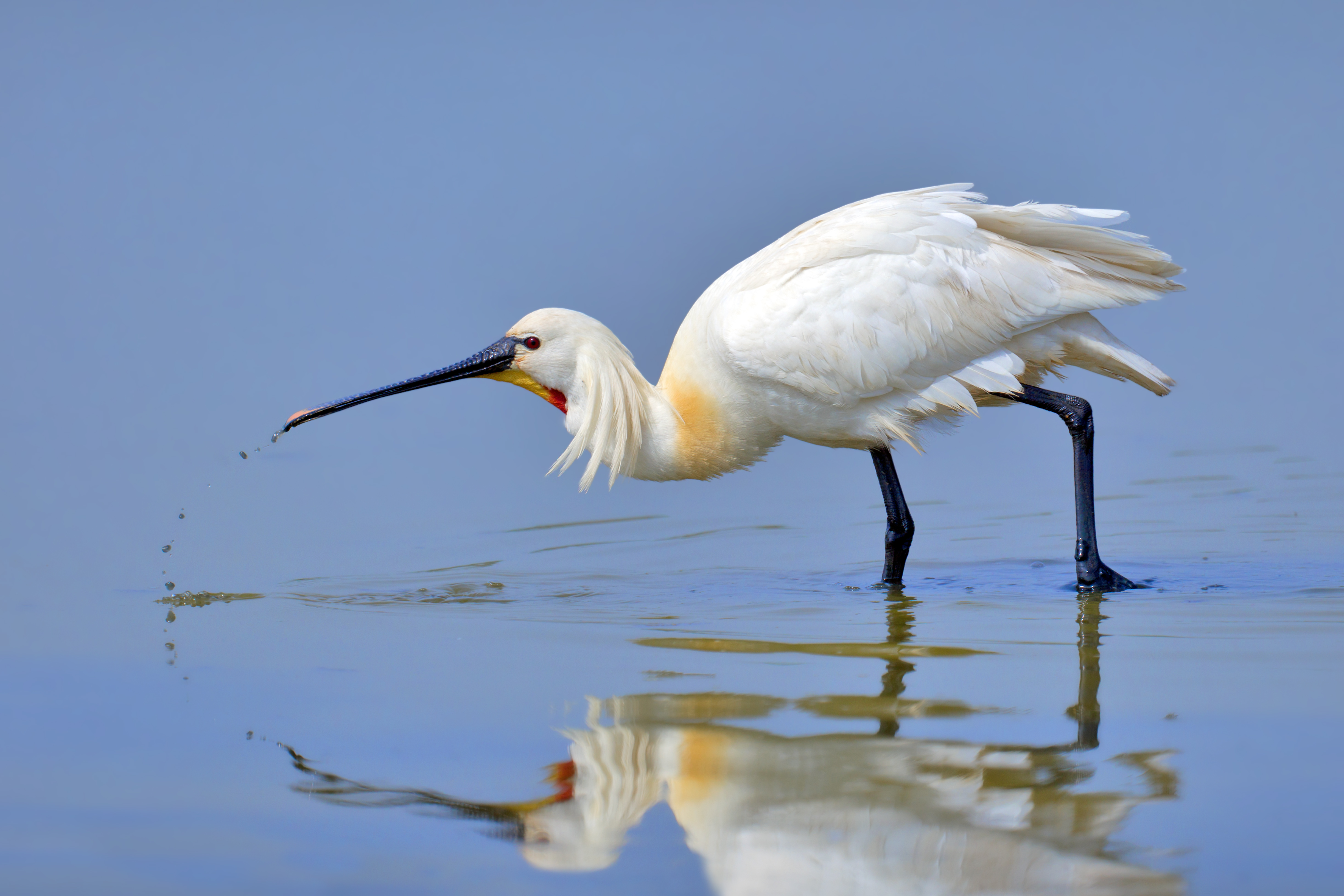 Eurasian Spoonbill in Texel, the Netherlands.